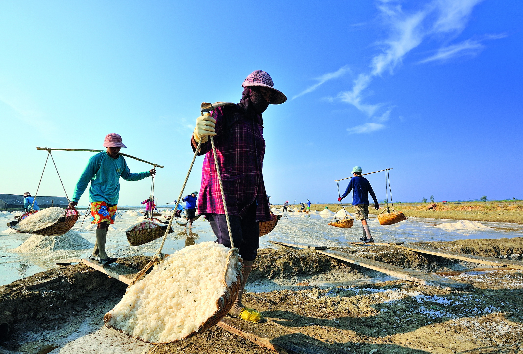 Samut Sakhon is situated along a coastal area suitable for shrimps and salt farming, and is the Thailand’s largest source of salt production. Most of shrimp farms and salt fields are operated in the subdistrict of Kalong, Na Khok, Ban Bo, Bang Tho Rat,Khok Kham, and Phanthai Norasingh in Muang district, and along the Thonburi-Pakthor Highway to Samut Songkhram. Salt production is carried out in a pan, called “Thab”, each of which covers an area of 30-40 rai, with 40 metres in width and 1,200-1,600 metres in length. One pan is divided into paddies, called “Krathong”. These paddies are used to evaporate seawater which contains different level of salinity, and are separated by soil ridges. As a result of separation, it causes “Pool of seawater”, a large and deep paddy with wide ridges. Windmills are employed to irrigate seawater into paddies. Seawater is then left for several months until brine becomes crystalised with thickness of approximately 5 millimetres. Salt is then gathered by raking into baskets and piled up in a pyramid shape to again be dried out before being sold in packs. During the rainy season, salt production is impossible as rain will wash brine away from the fields, and salt cannot be dried out. Salt producers therefore turn their fields into an area for farming marine creatures, e.g. shrimps, crabs, fish, and so on, collectively called “Shrimp farm”.